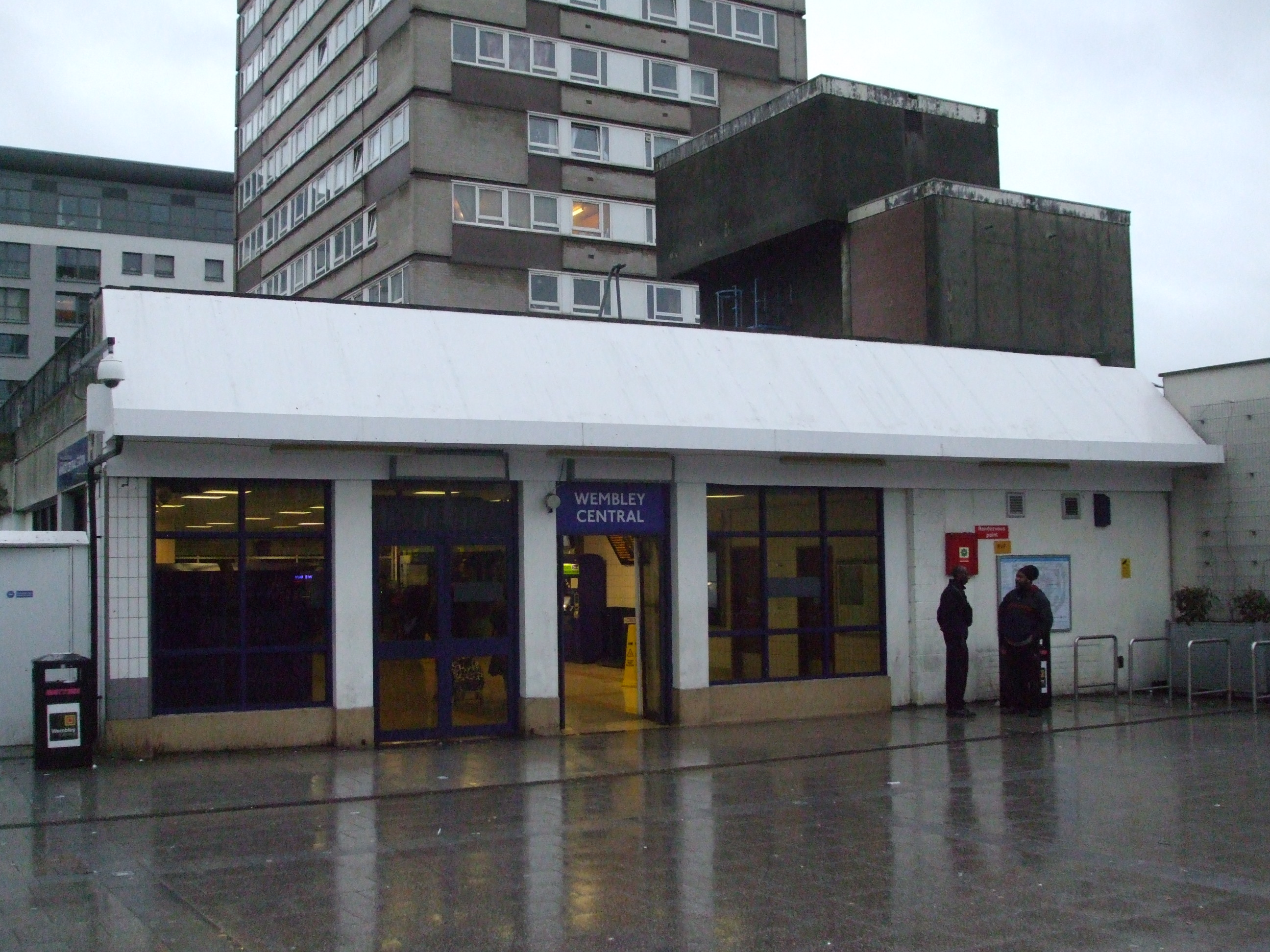 Wembley Central station building, as seen in December 2012.